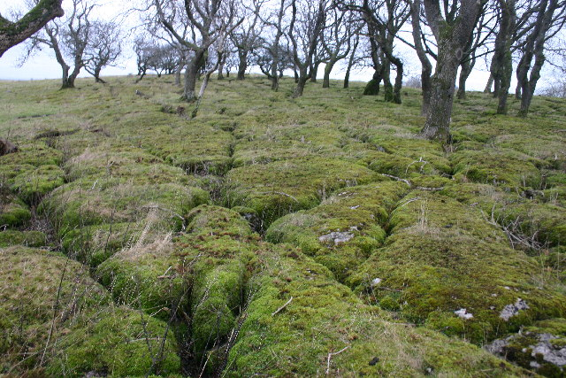 Mossy Clints. On Clints Crags, Sunderland, CUMBRIA